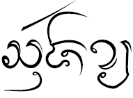 Lanna script – San Sai is a district (amphoe) in the central part of Chiang Mai Province in northern Thailand.